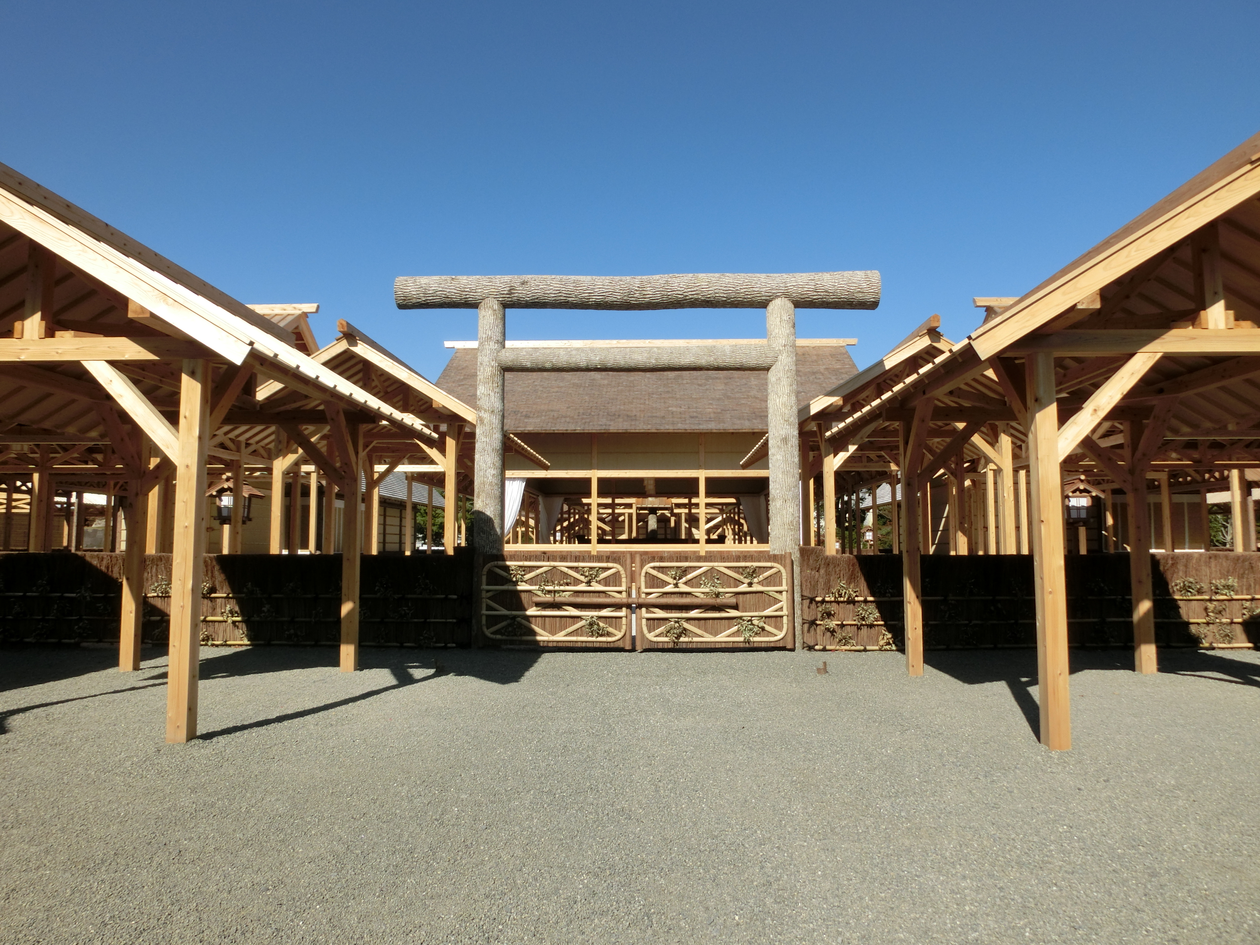 Dengai-omi-akusha (Reiwa Daijokyu)